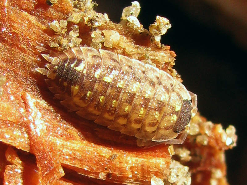 Porcellio spinicornis. Location: Sittard-Geleen (The Netherlands)